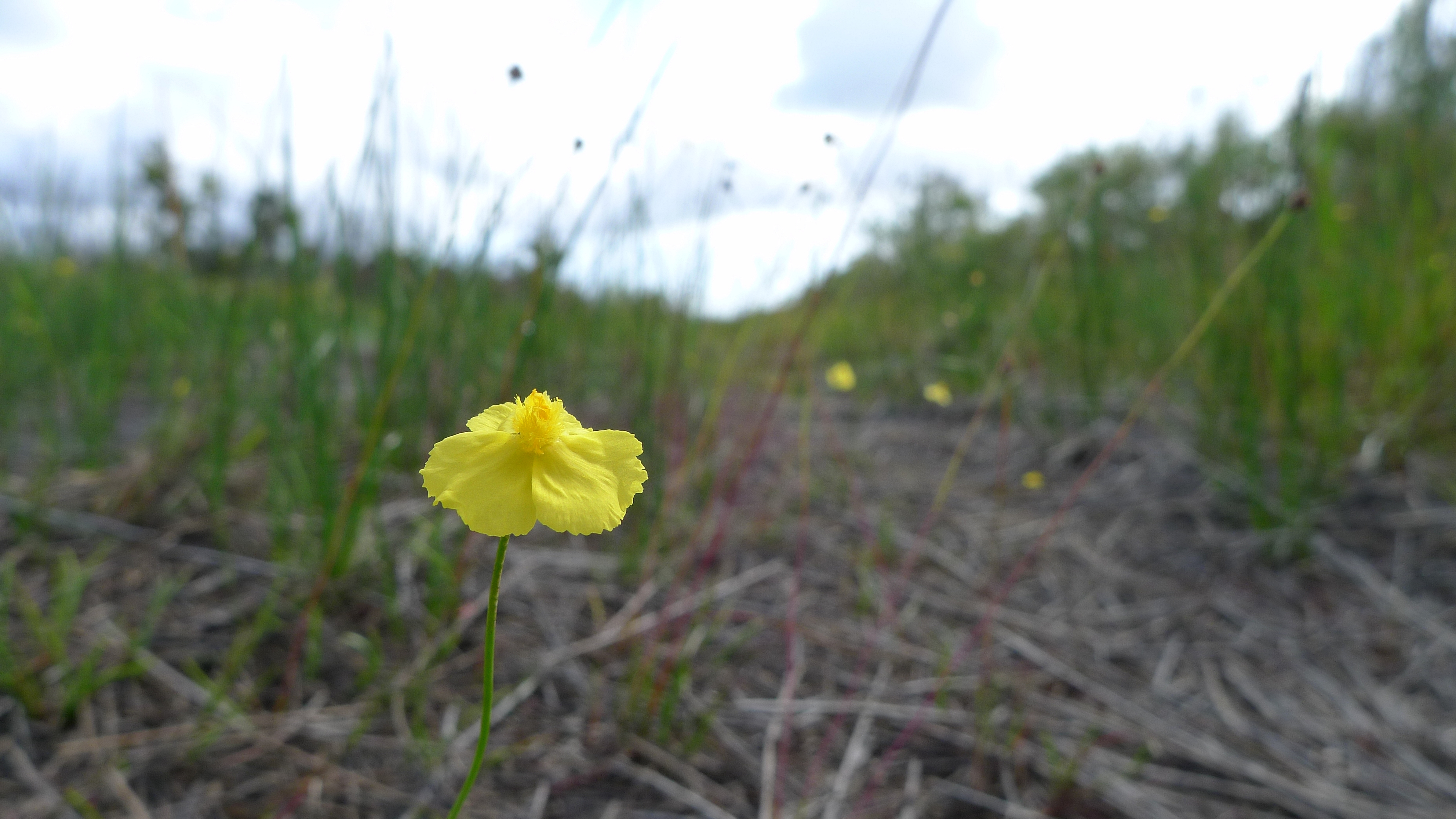 Dwarf Yellow-eye, possibly Xyris juncea, growing in swampy sandy soil. Limeburners Creek National Park, NSW Australia, January 2014.